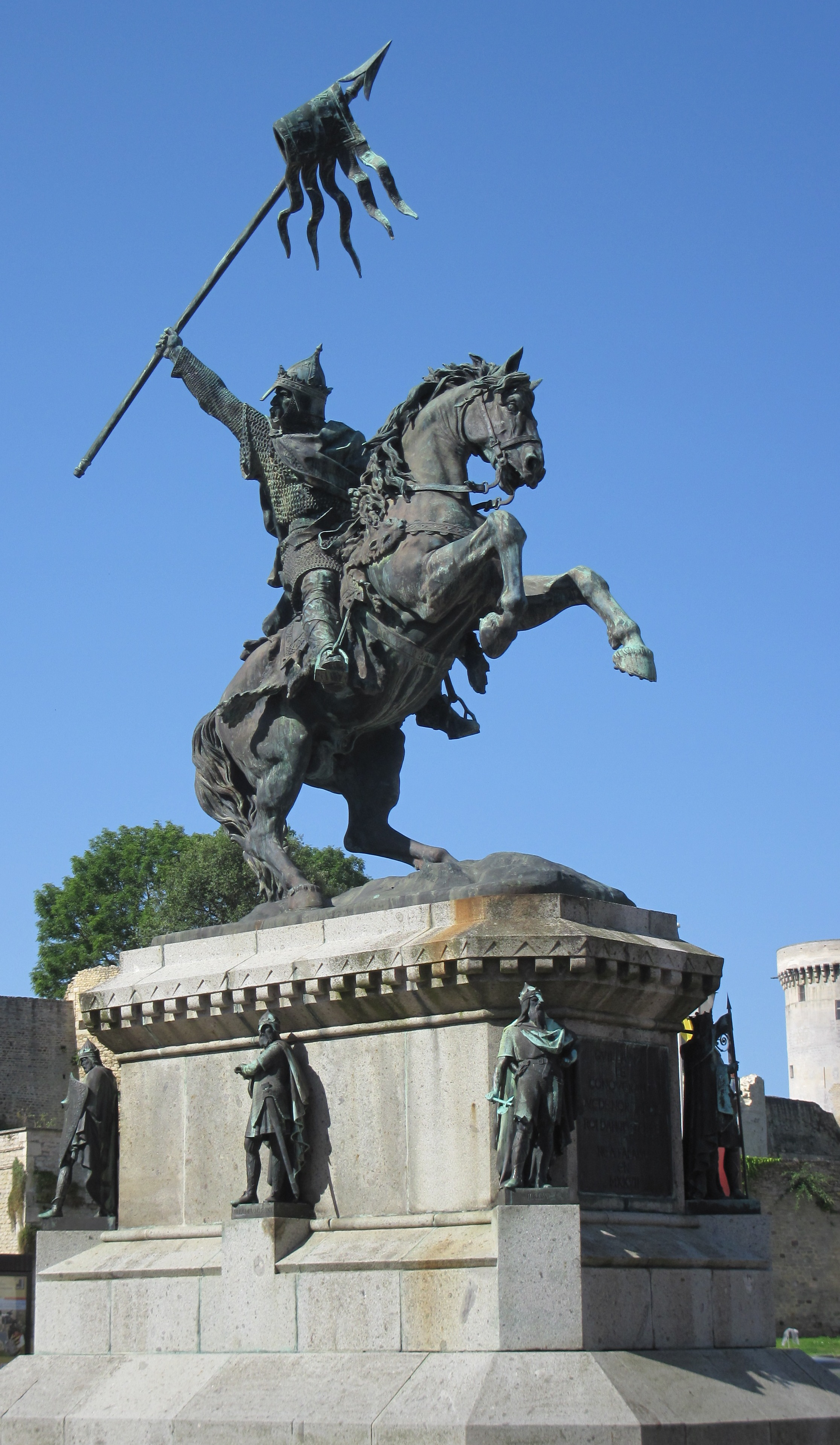 Monument to William the Conqueror at Falaise (Calvados, Basse-Normandie). The equestrian statue of the seventh Duke of Normandy, sculpted by Louis Rochet (1818-1873), was built in 1851. On the pedestal, statues representing the preceding six dukes were added in 1875.